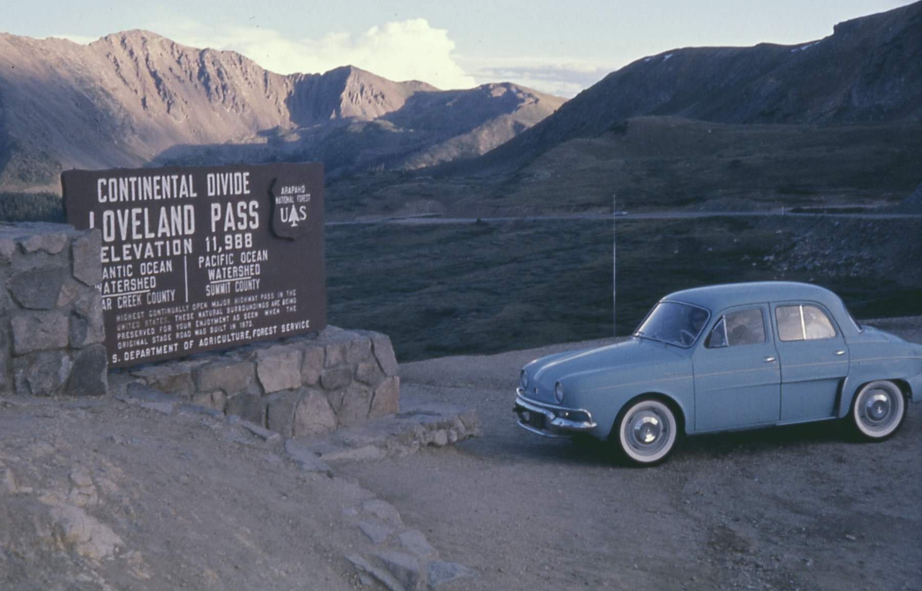 The US Continental Divide at the top of Loveland Pass, Colorado, USA. Taken with 35mm Ektachrome slide film, and an Exakta VX SLR camera.